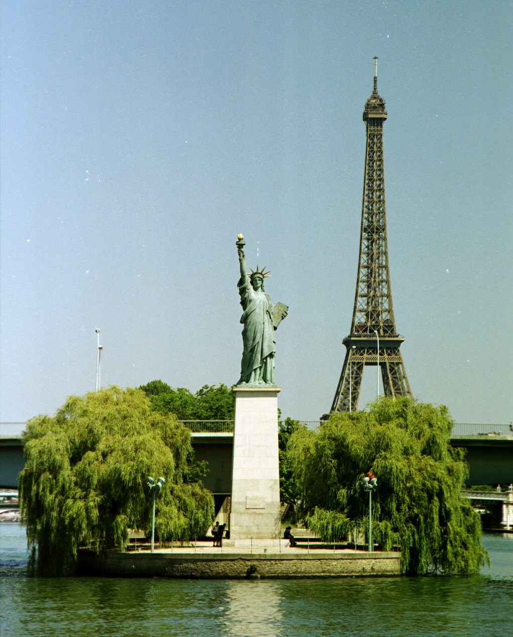 Statue of Liberty (with Eiffel tower in background) in Swann island, above Grenelle gate, Paris, 15 district.